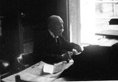 Photograph of Baron Henri Hottinguer, from family archive